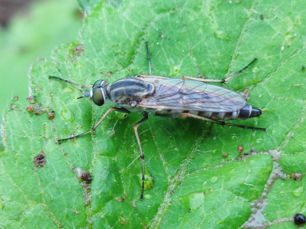 Thereva plebeja. Found in Audriņi village near Rēzekne city, Latvia